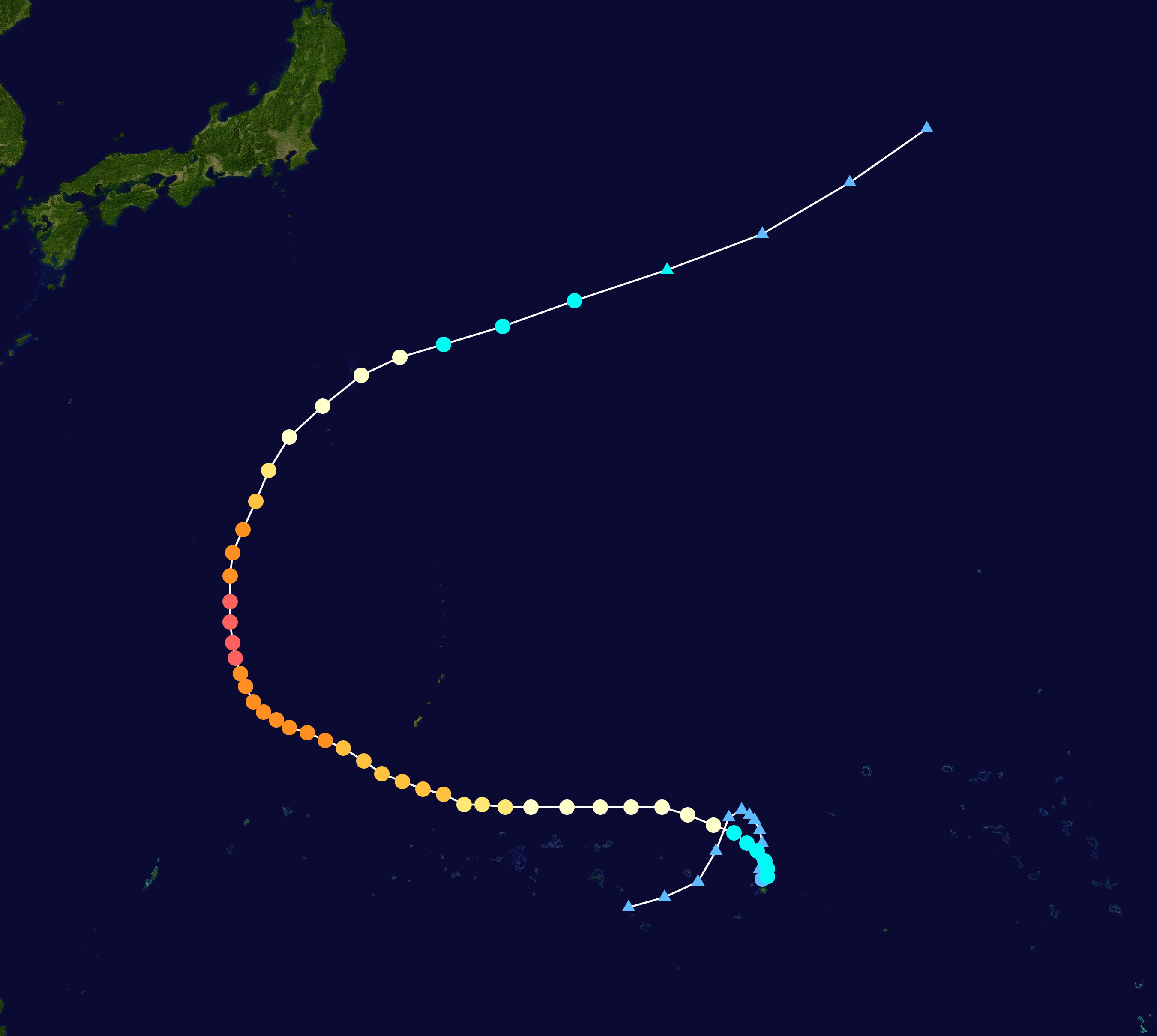 Typhoon Isa 1997 track. Uses the color scheme from the Saffir-Simpson Hurricane Scale.